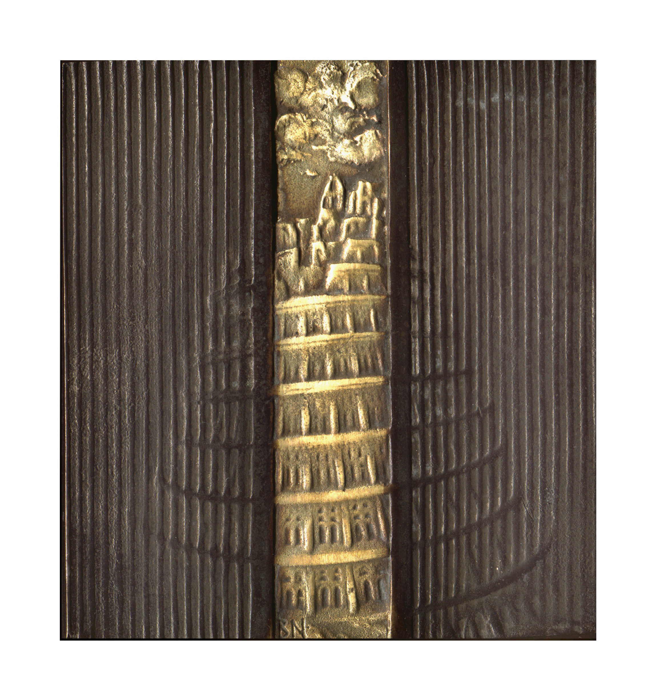 NEW BABYLON 2 2001, brass, 130 x 120 mm